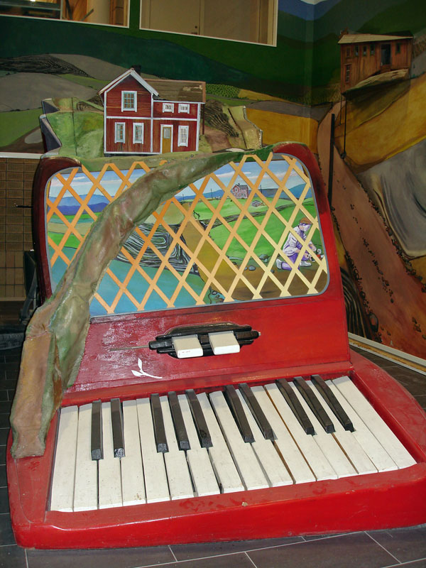 Part of the Swedish artist Anders Åberg's wooden sculpture in Skogshögskolan in Umeå from 1979